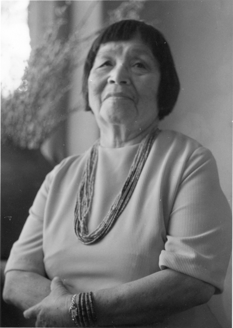 2013-0143m Polingaysi Qoyawayma (Elizabeth Q. White) ca. 1970 photographer: Fronske Studio, Flagstaff, Arizona source: Bethel College alumni office, 1983